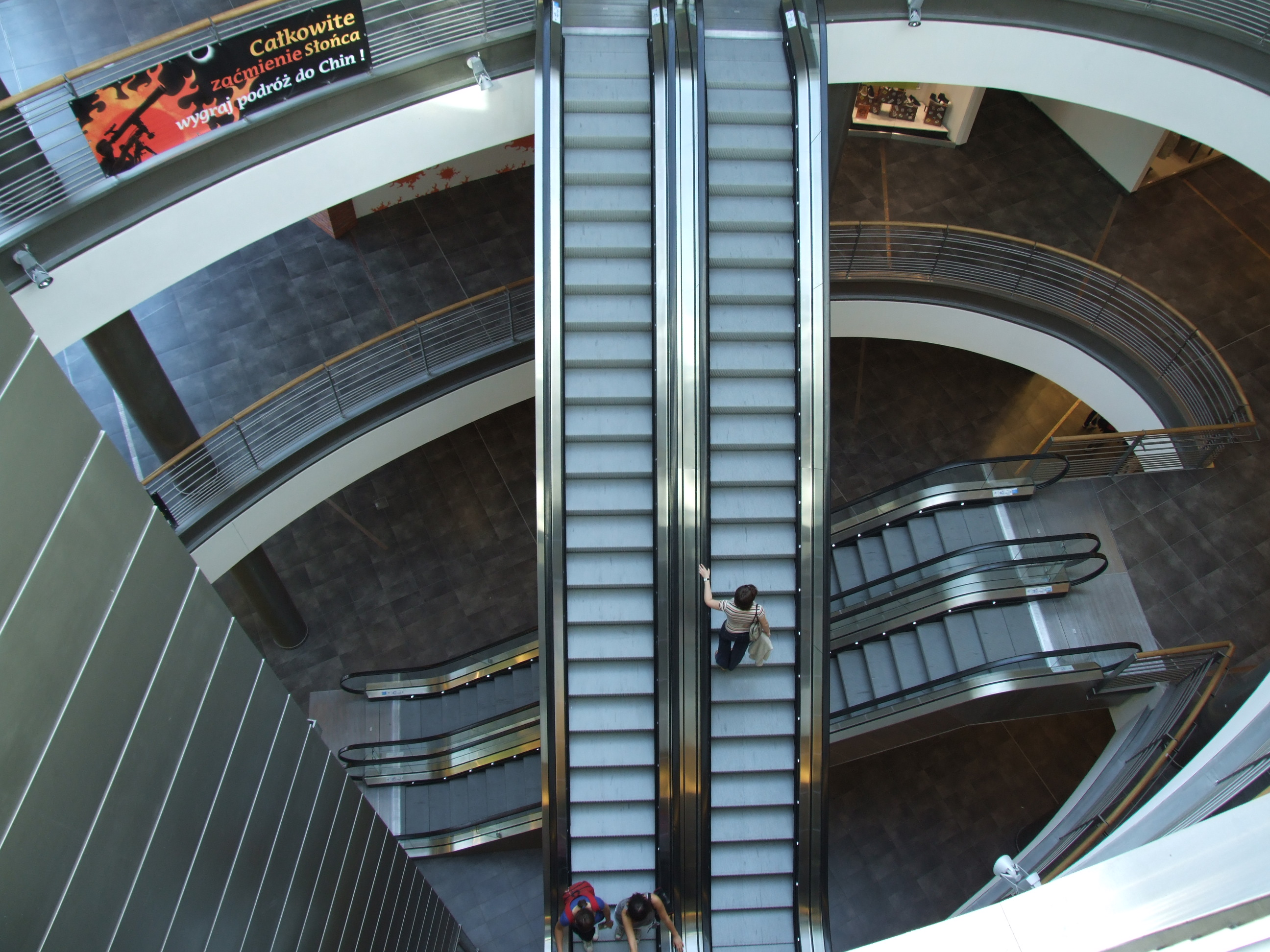 Solaris Center - Opole (Oppeln), Upper Silesia